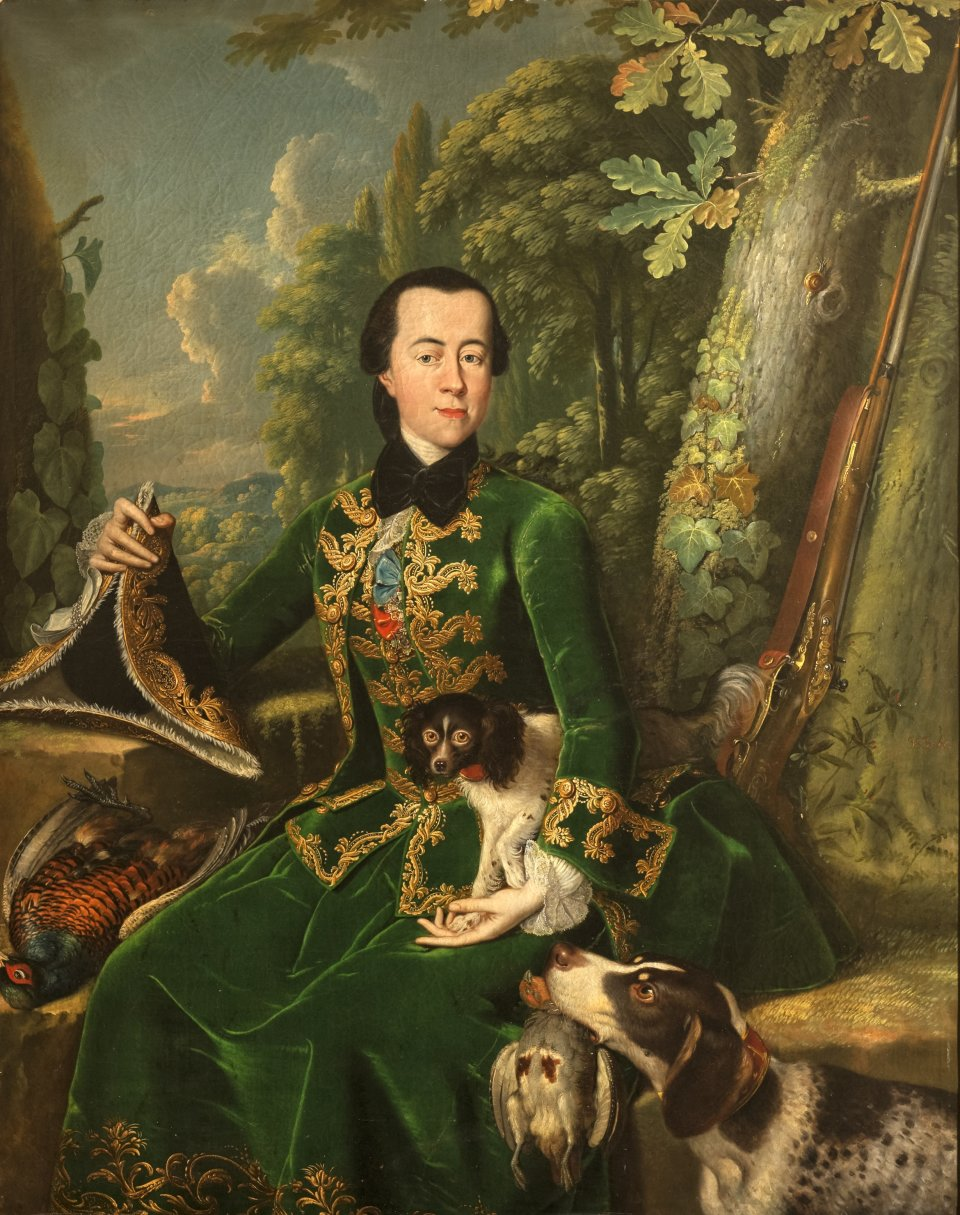 Portrait of Ernestine Albertine of Saxe-Weimar (1722-1769), wife of Philip II of Schaumburg-Lippe